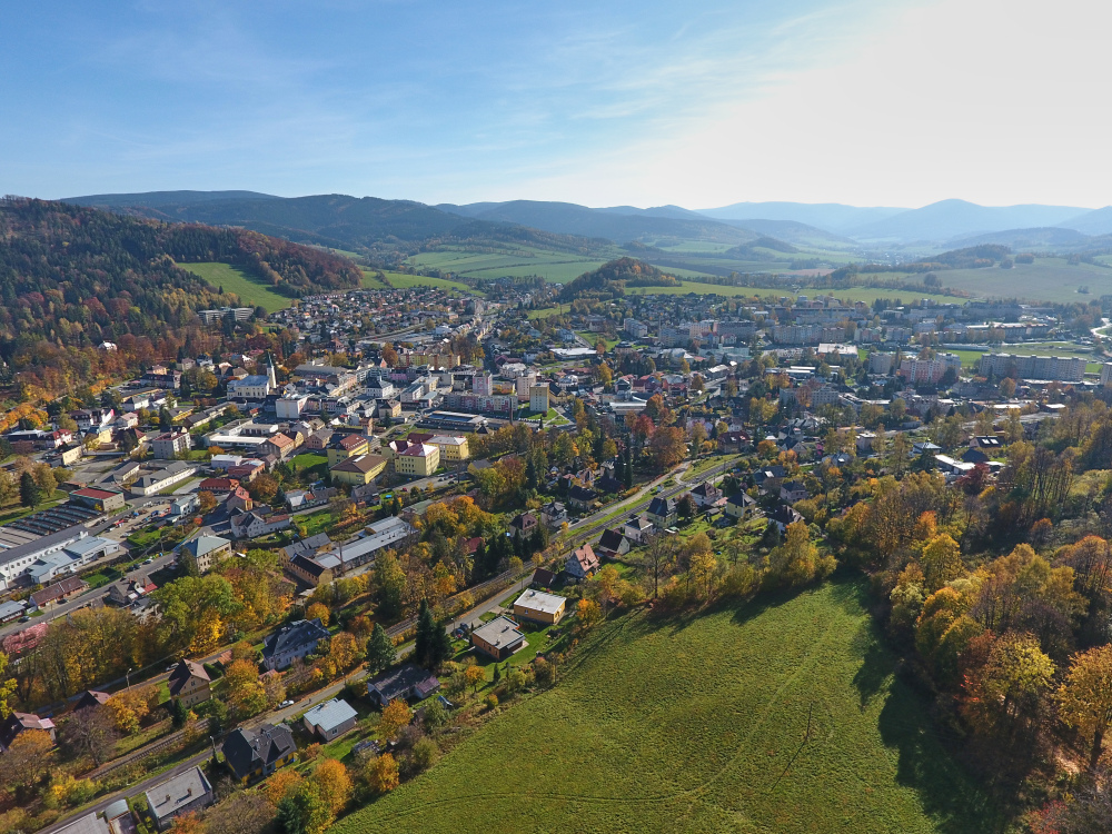 Jesenik by dron